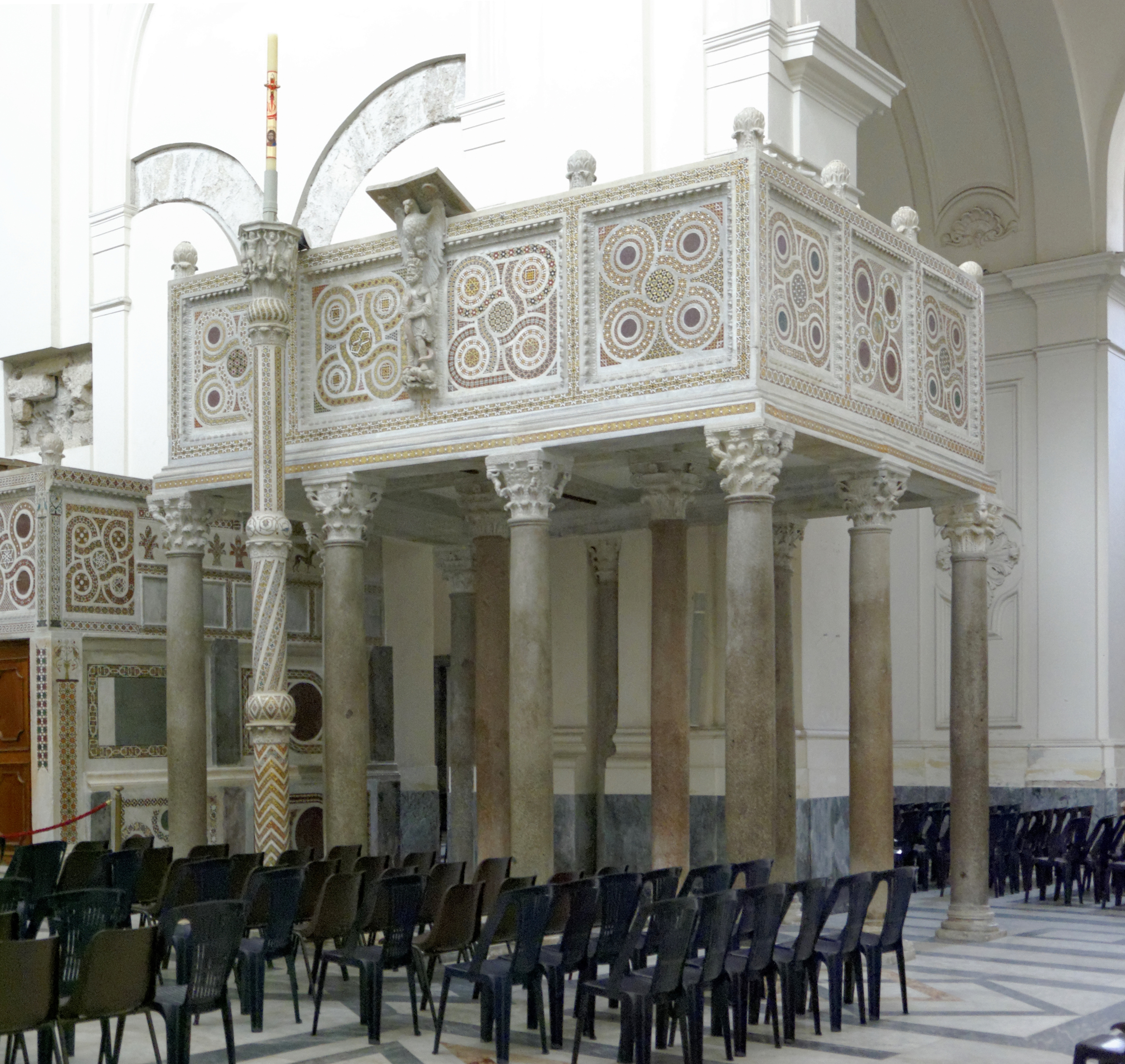 Salerno, San Matteo, Interior